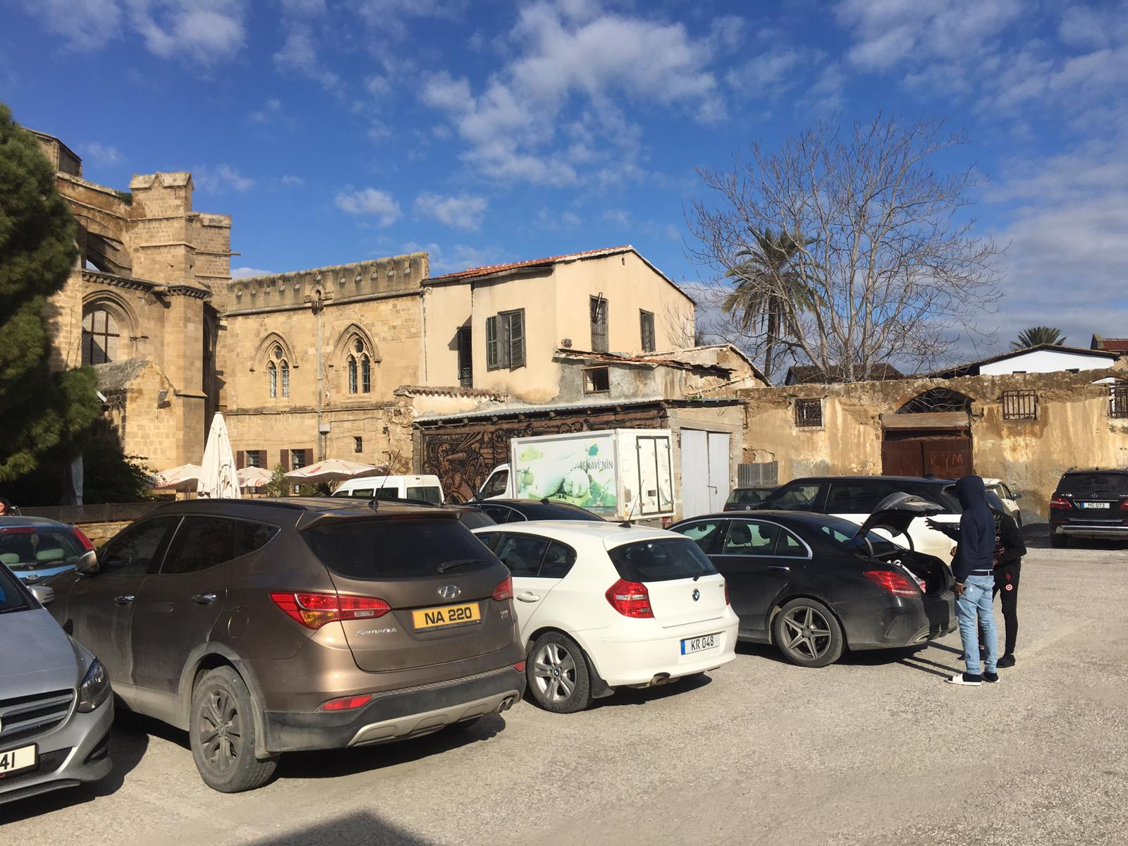 The carpark situated at the site of the former Deveciler Hanı, North Nicosia.